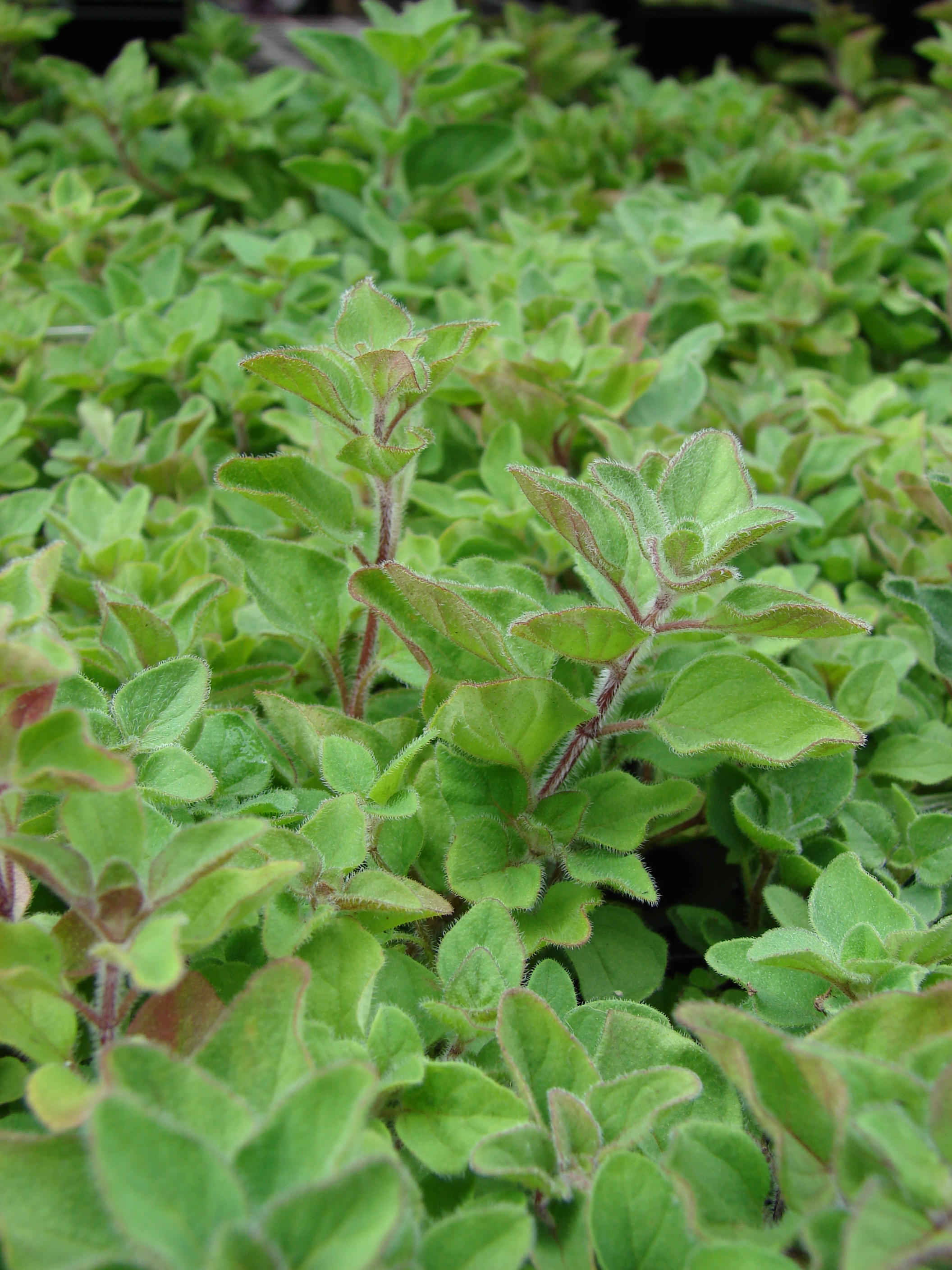 Origanum majorana (leaves). Location: Maui, Kula Ace Hardware and Nursery